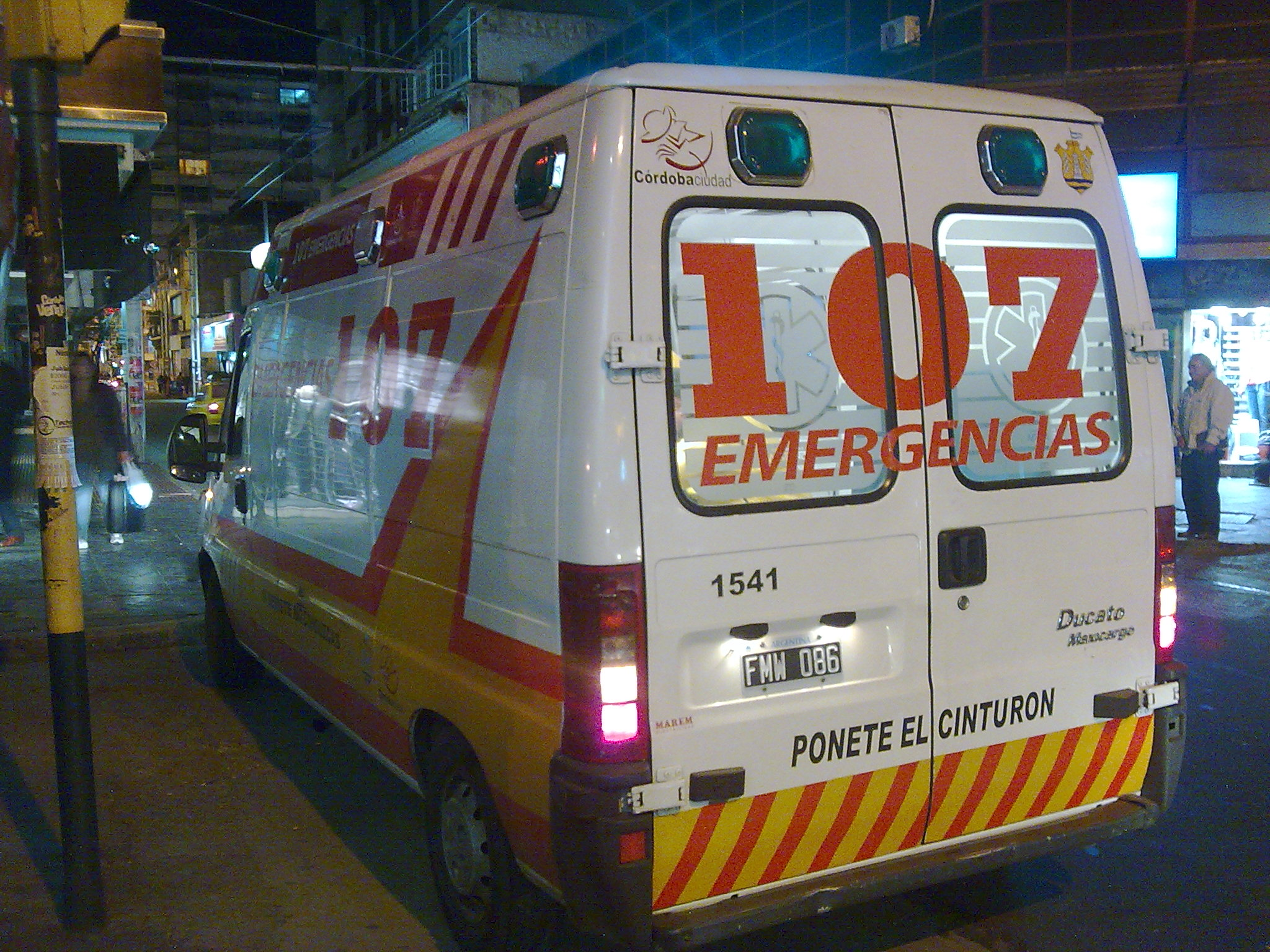 Ambulance of the 107 service, provided by the municipality. It assists people in the public road. Cordoba, Argentina.